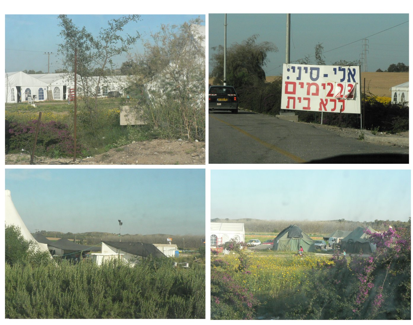 Elley Sinai Refugee camp: Elly Sinai (אלי סיני) was a Jewish settlement which was uprooted in Sharon's 2005 disengagement plan, this is a refugee camp of its residents near Kibbutz Yad Mordechai Author: MathKnight